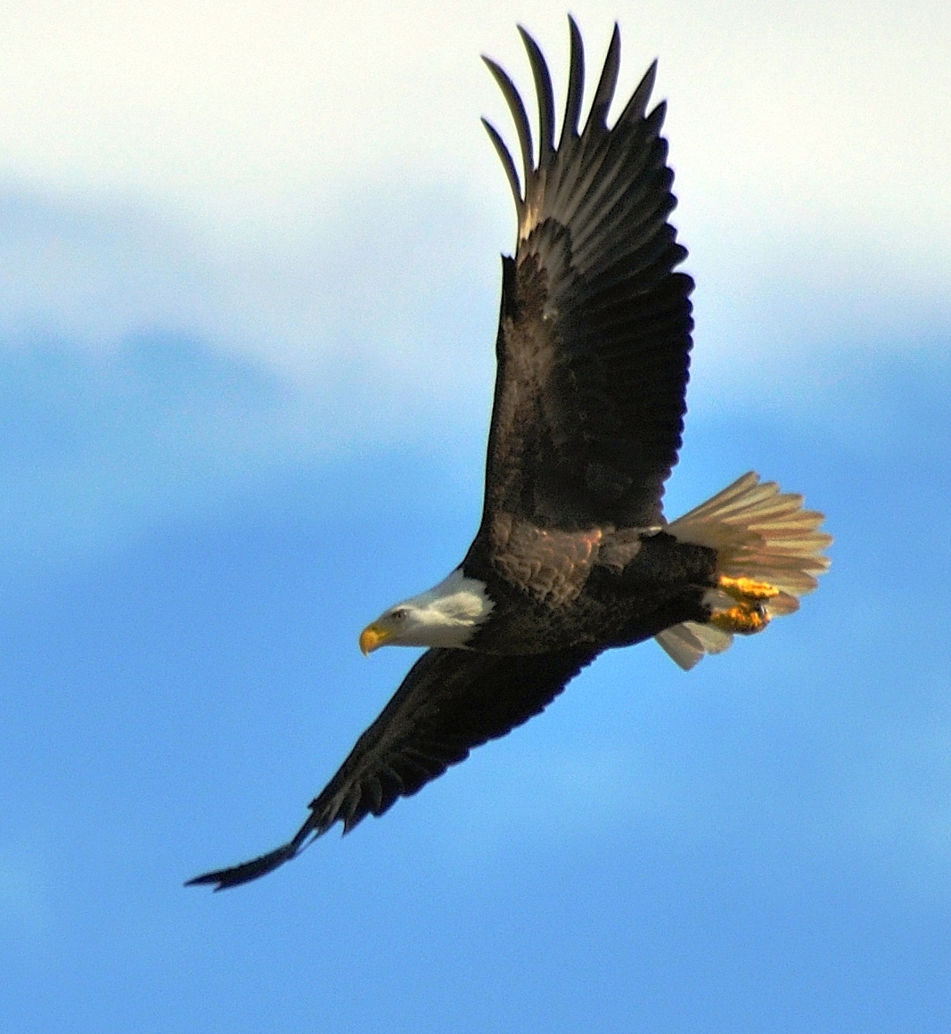 American bald eagle (Haliaeetus leucocephalus) in Chippokes Plantation State Park, Virginia.